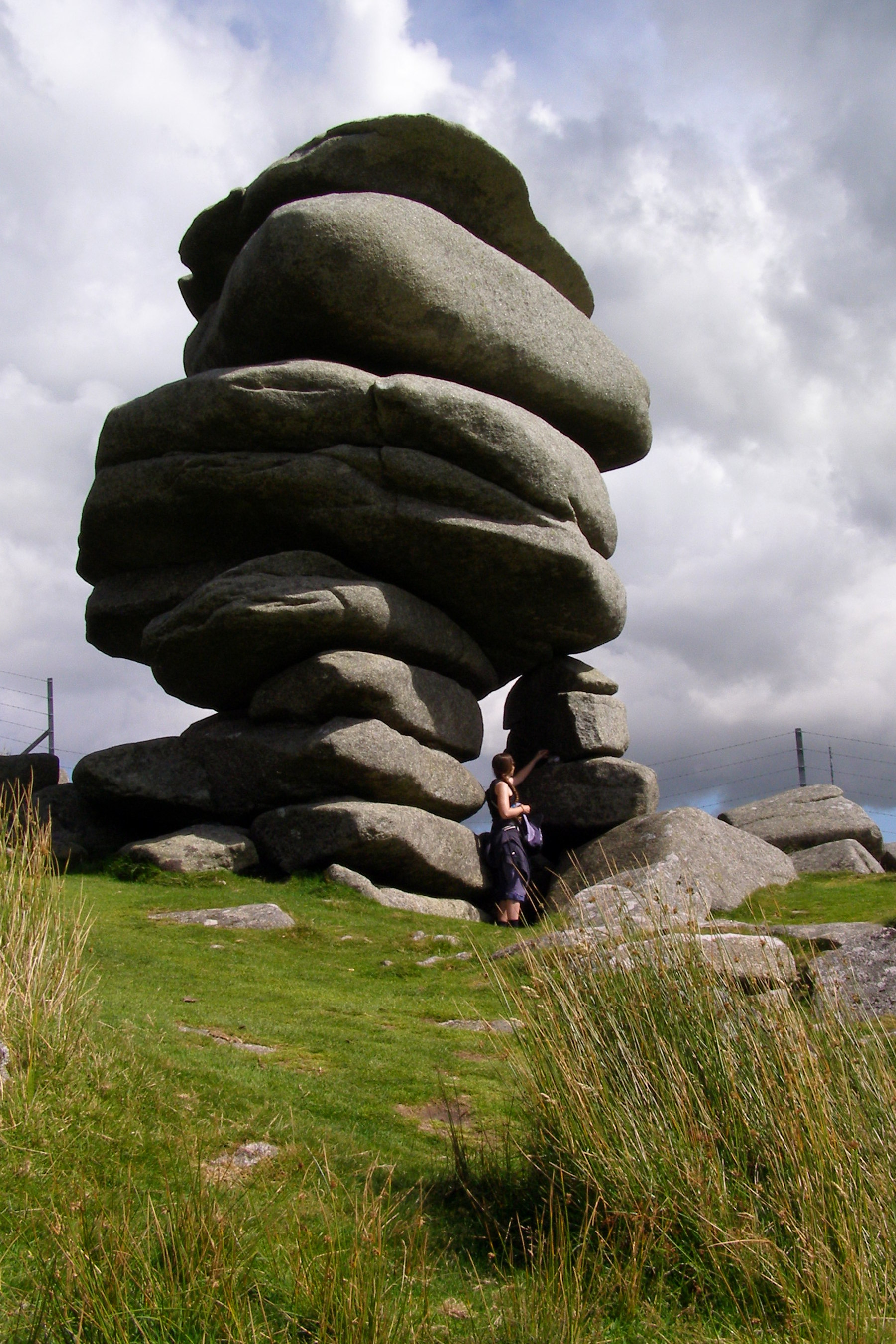 The Cheesewring, near Minions, Cornwall, U.K. A natural granite feature with adult human for scale.